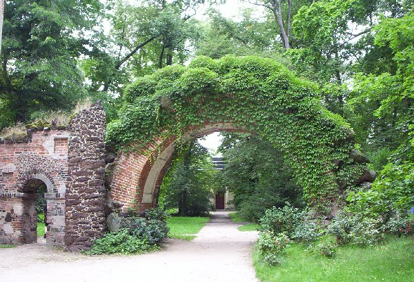 The Stone Arch - park in Arkadia, Poland.